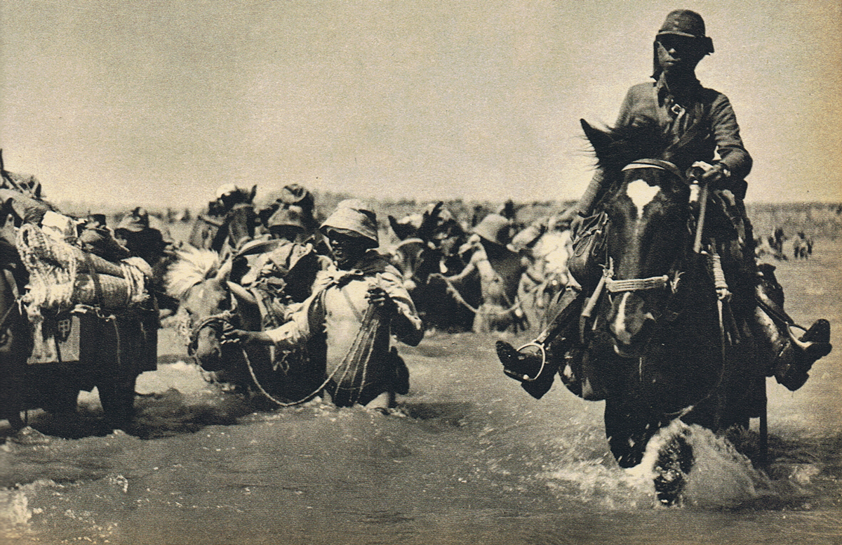 Soldiers of IJA 6th Infantry Regiment crossing the Bái hé River during the Battle of Zaoyang-Yichang, 8 May 1940. The regiment, as the main force of the IJA 3rd Division, was approaching Yíchāng from the north.